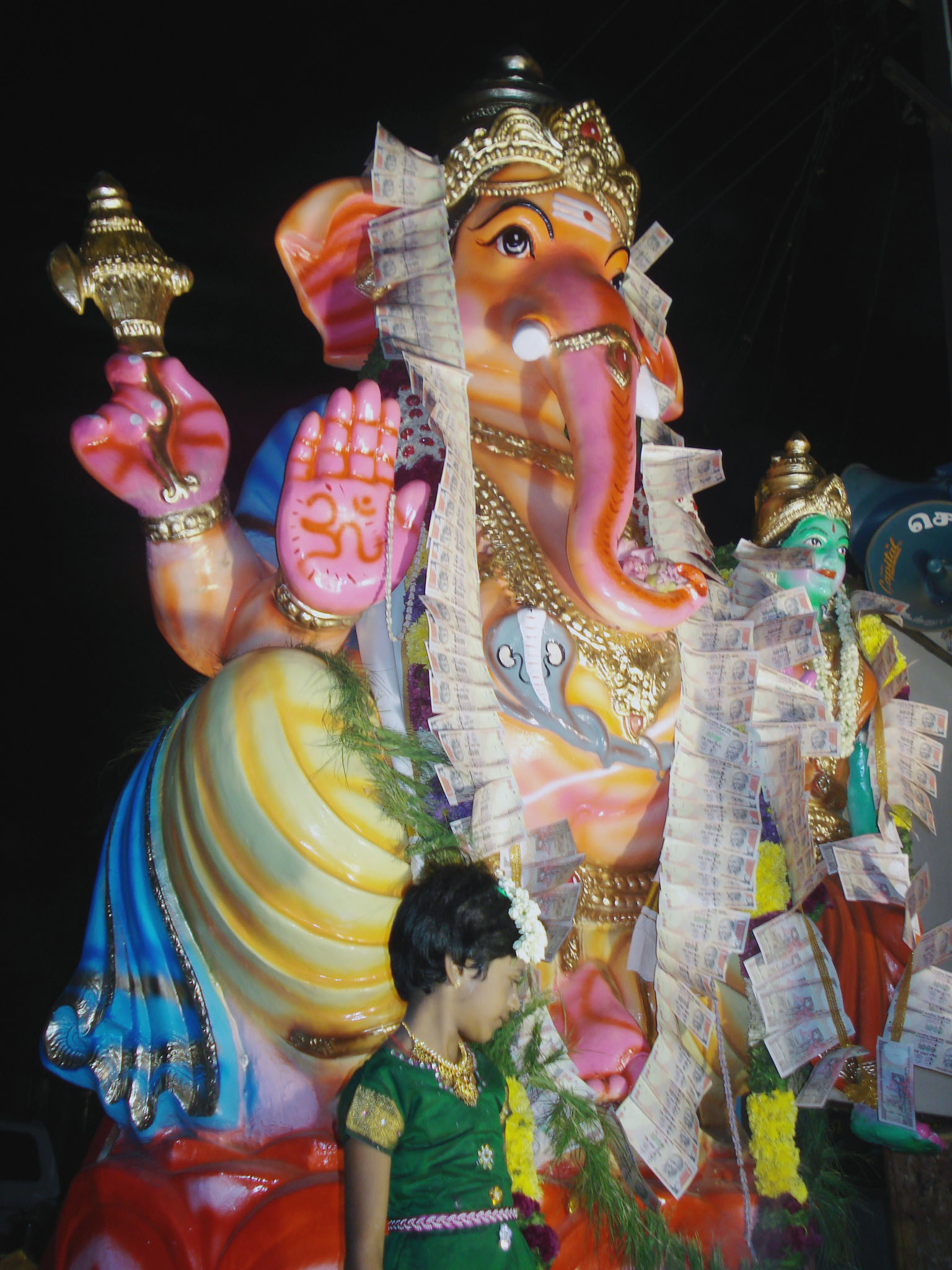 The statue of vinayakar, Tamil Nadu